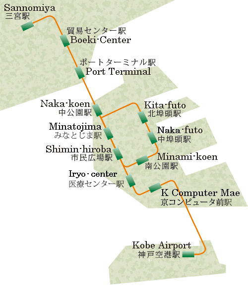 Map of Port Liner stations on Port Island in Kobe, Japan. Modified map with station names in Romaji for use in non-english wikis. Original image: 画像:KobePortLiner.png uploaded on japanese Wikipedia by